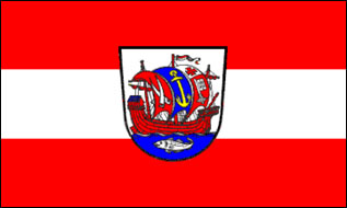 Flag of Bremerhaven.